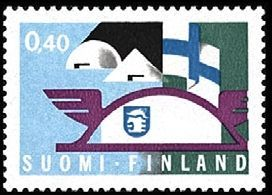 Finnish trade fair 50 years - the first fair in 1919 at Helsinki.